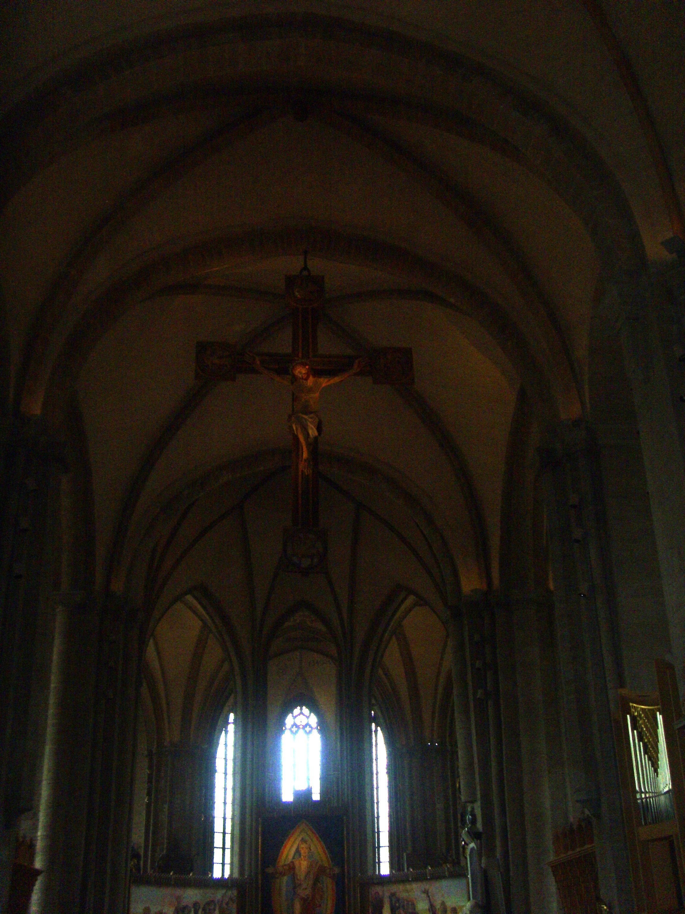 The Cathedral of Linköping.